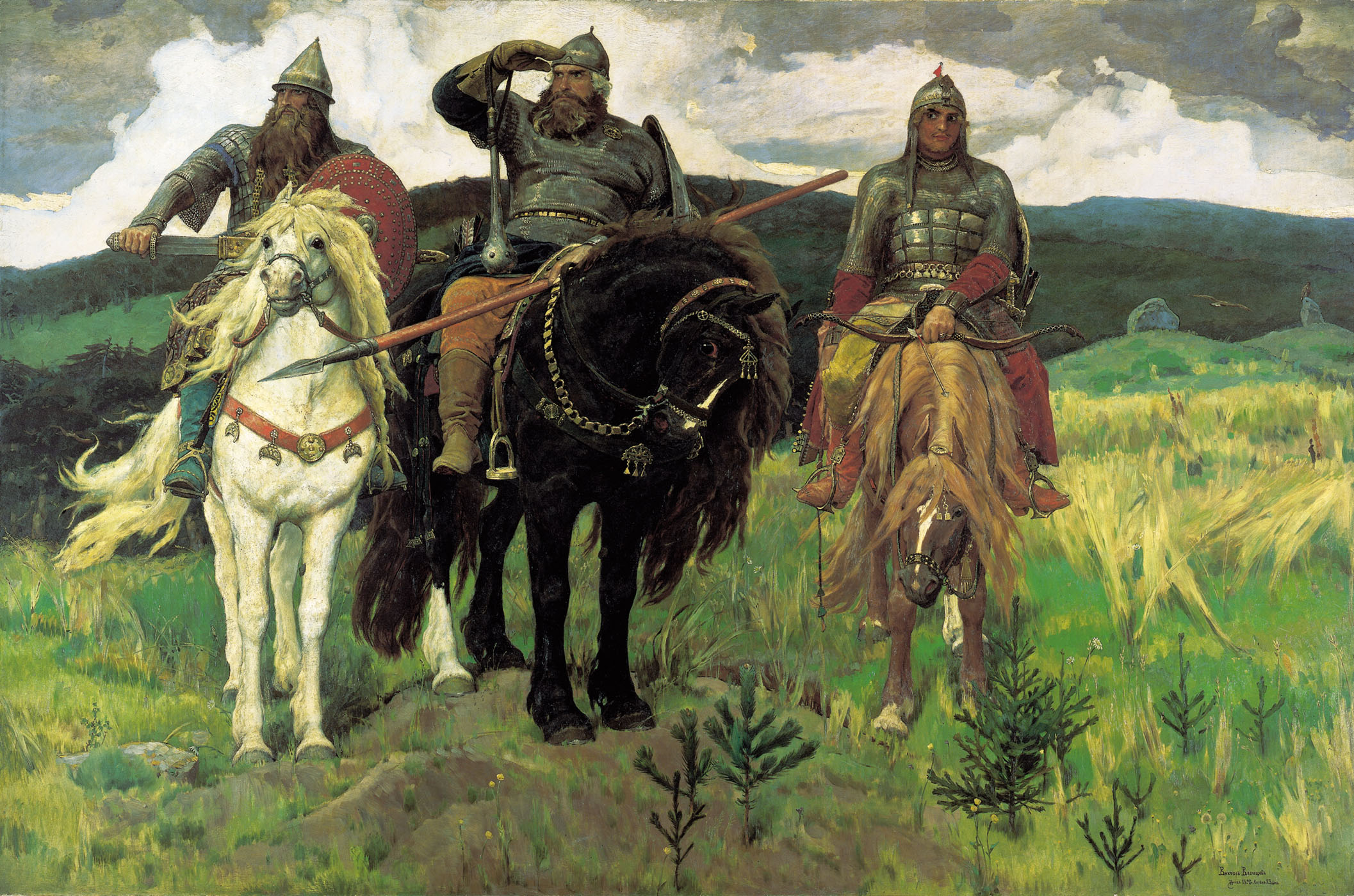 Bogatyrs (1898) by Viktor Vasnetsov. Bogatyrs (left to right): Dobrynya Nikitich, Ilya Muromets, Alyosha Popovich. Oil on canvas 321*222 Tretyakov Gallery